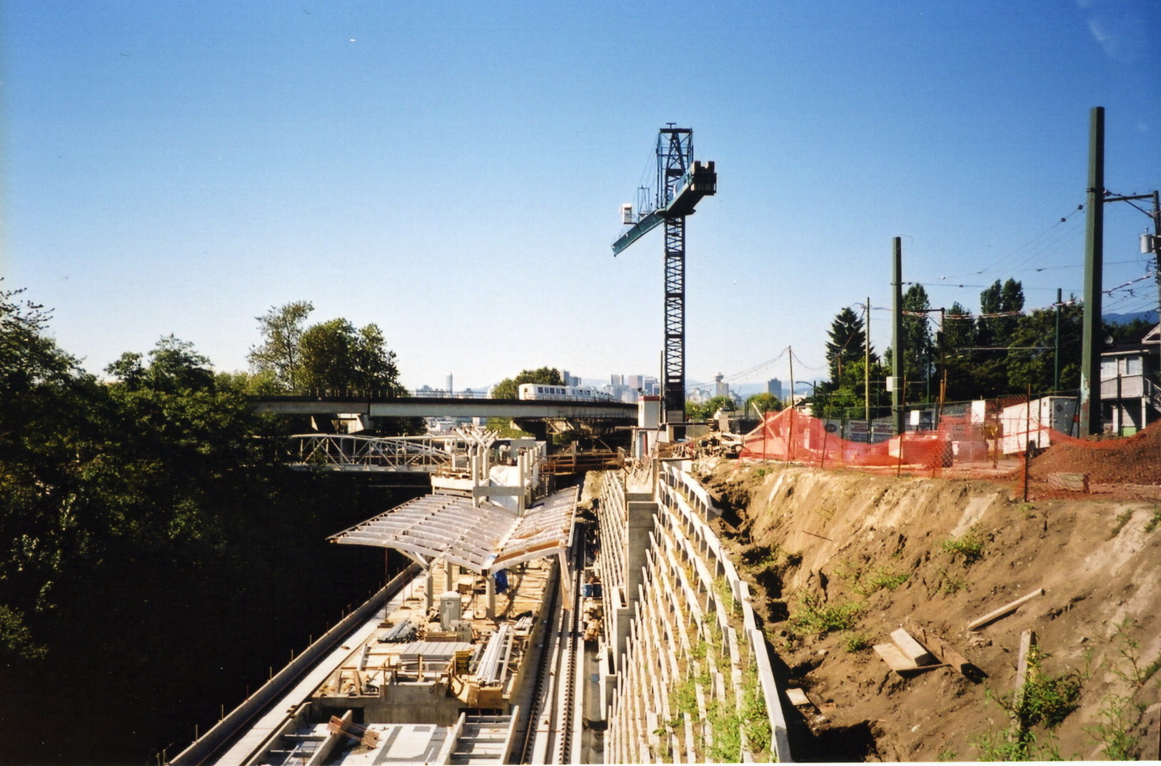 September 2001. Broadway Station at Broadway & Commercial Drive. A portion of SkyTrain's Millennium Line was built along the Grandview Cut in East Vancouver. Soil from the Grandview Cut was used as landfill for False Creek Flats which served as railyards for Burlington Northern Railway and the Canadian National Railway.